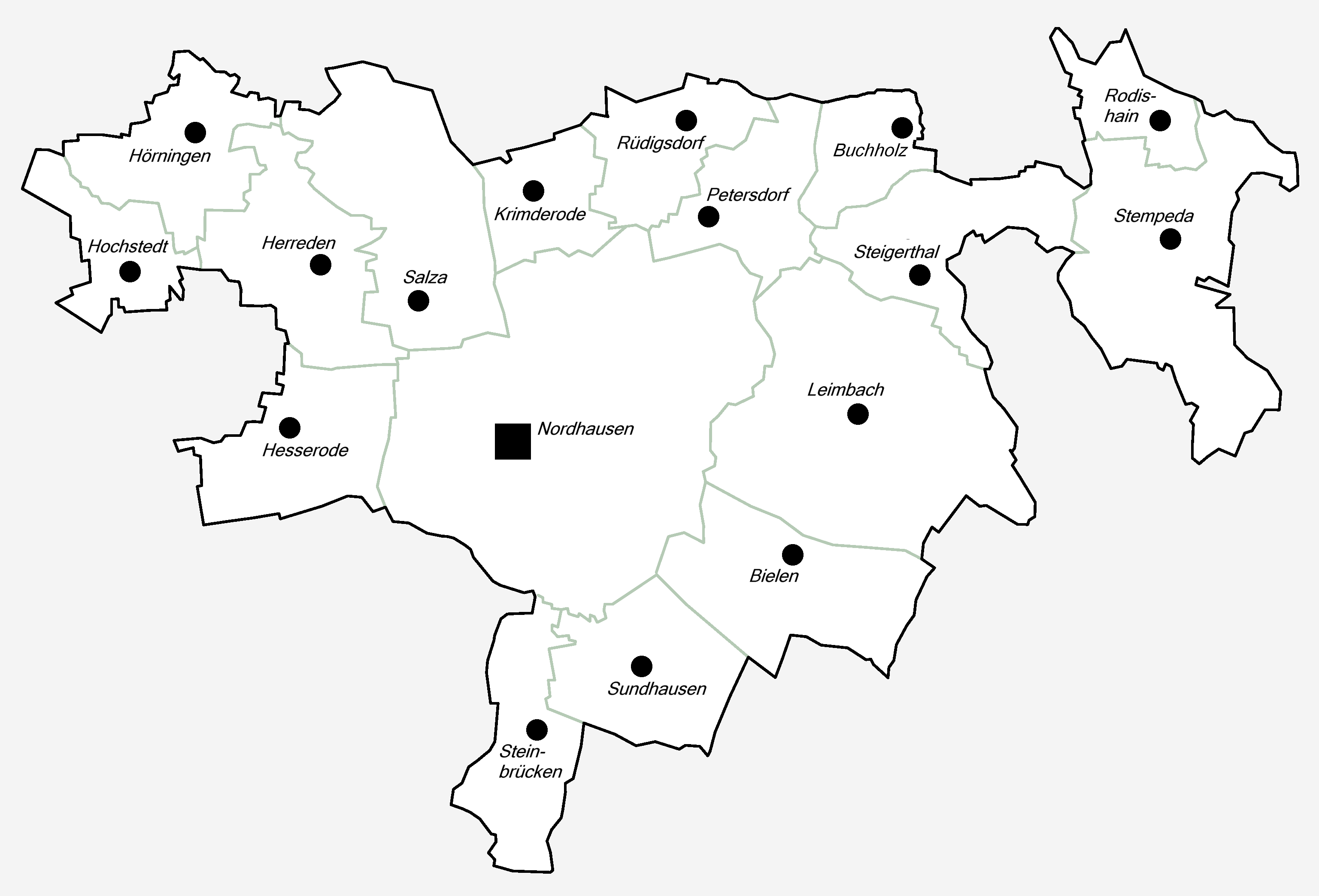 Ditrict-Map of Nordhausen.